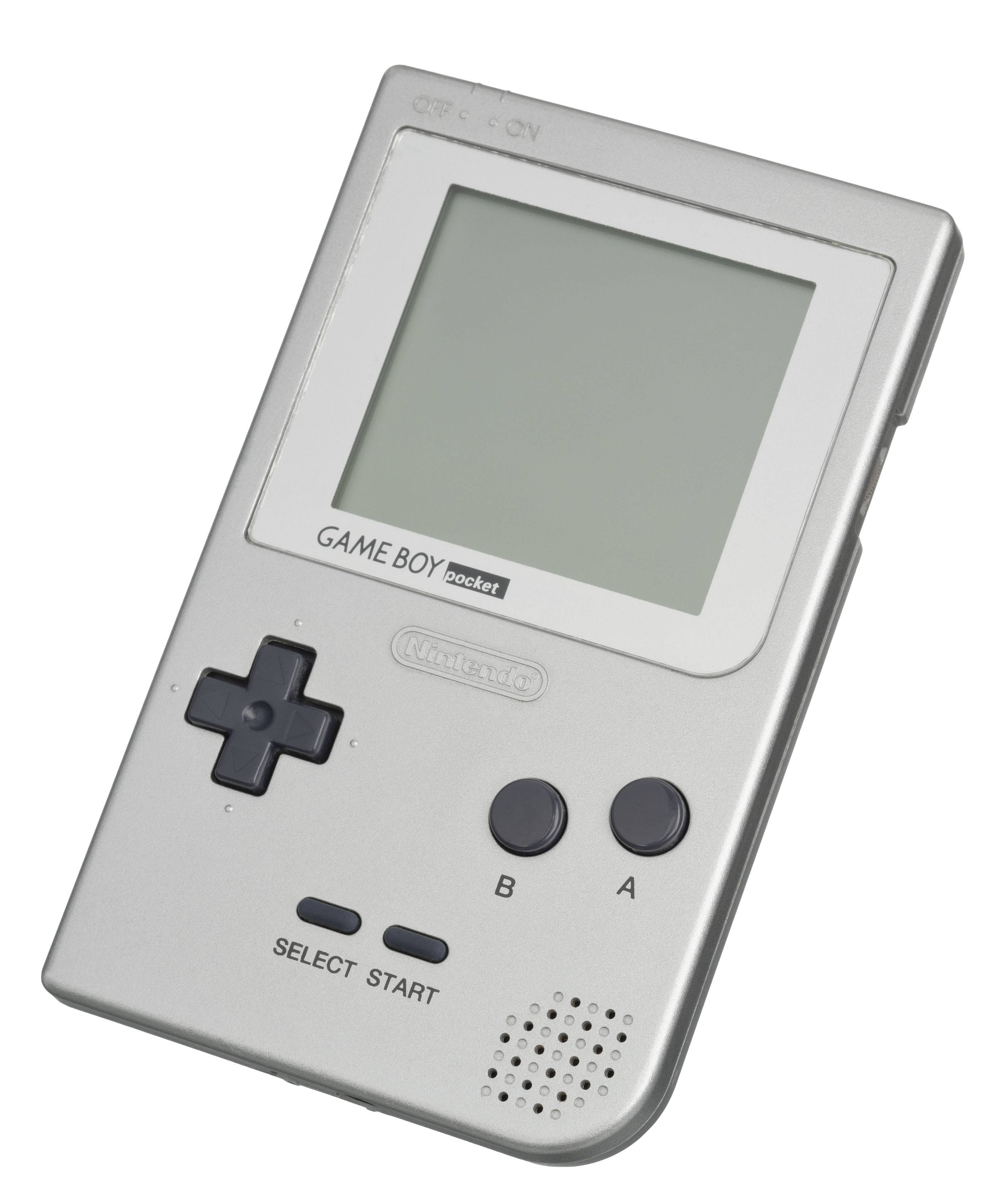 The Game Boy Pocket, a gaming handheld released by Nintendo in 1996. It is a redesign of the original Game Boy hardware, released seven years earlier. It features a drastically improved screen and is much smaller than the previous model. It also has better battery life, running on 2 AAA batteries instead of the 4 AAs used by the previous model. This is the first model, which was avaiable in silver with a silver LCD bezel. Later models would add different colors with a black bezel as well an LED battery-indicator light.